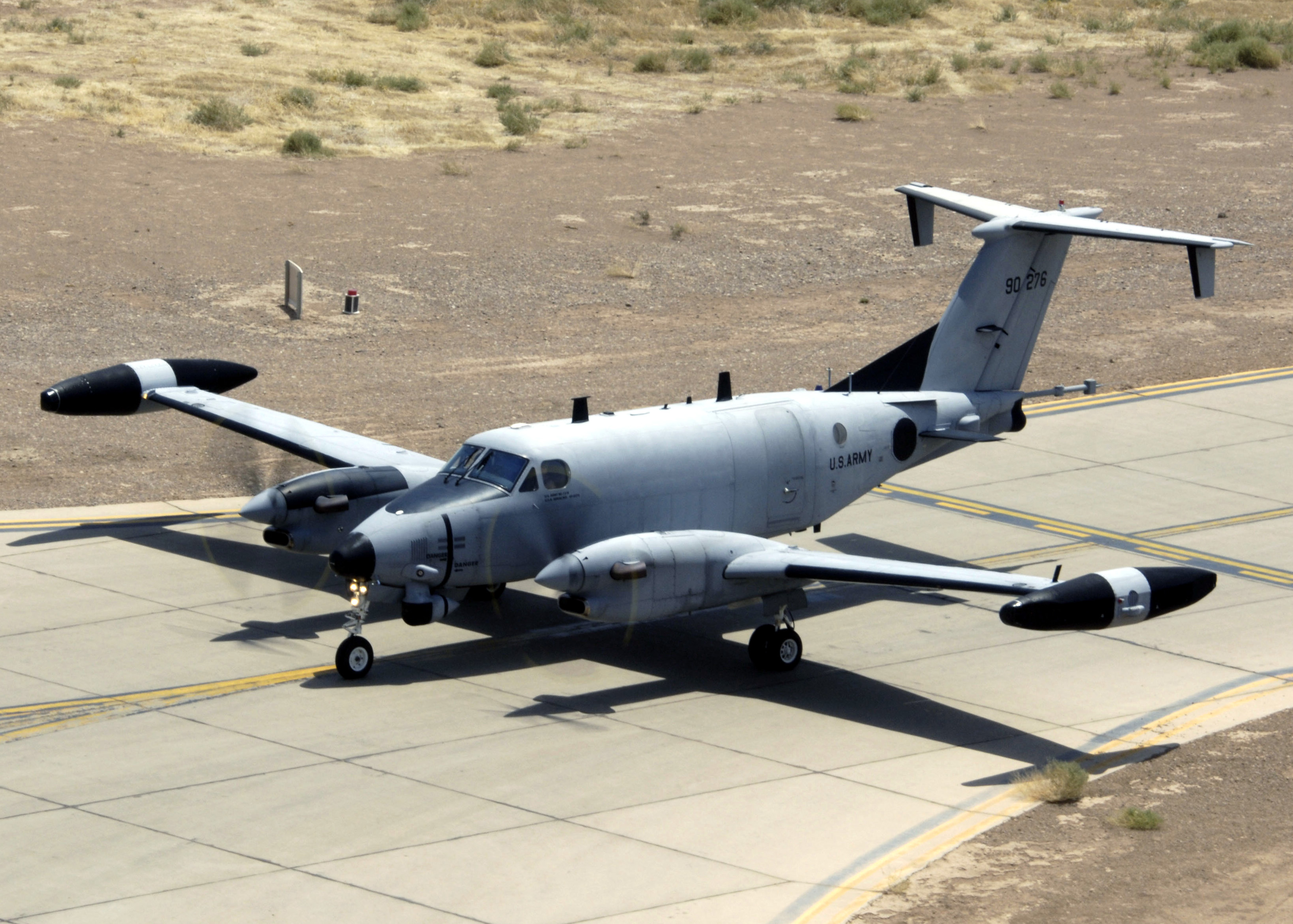 RC-12P US Army ELINT aircraft, Balad AB, Iraq